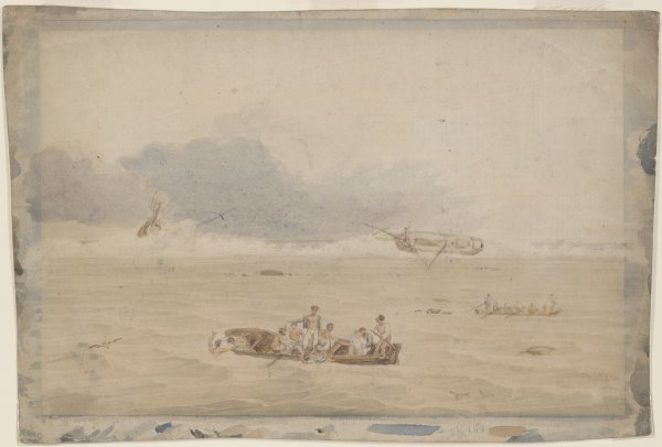 watercolour; 31.2 x 46 cm.